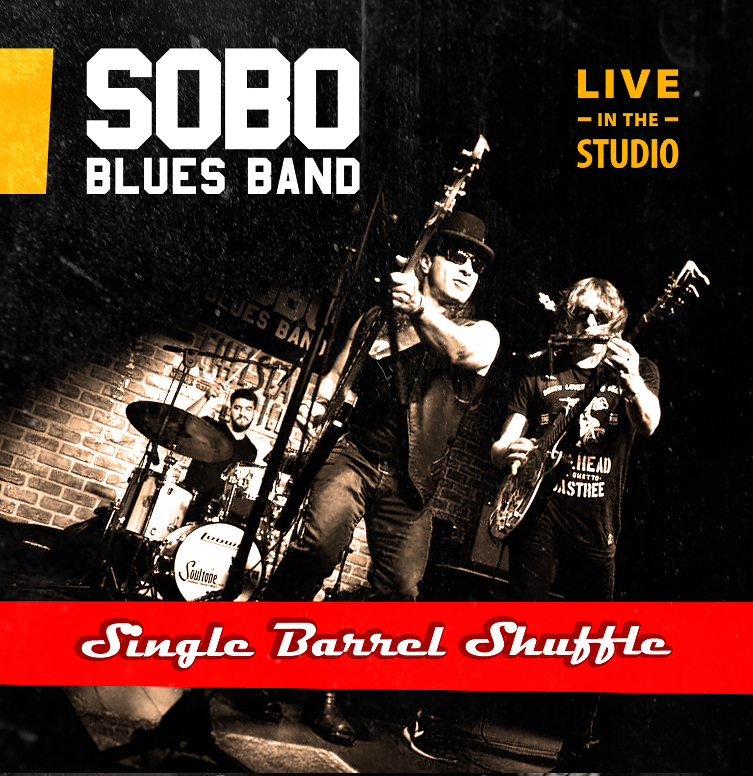 cover of the "Single Barrel Shuffle" album by SOBO